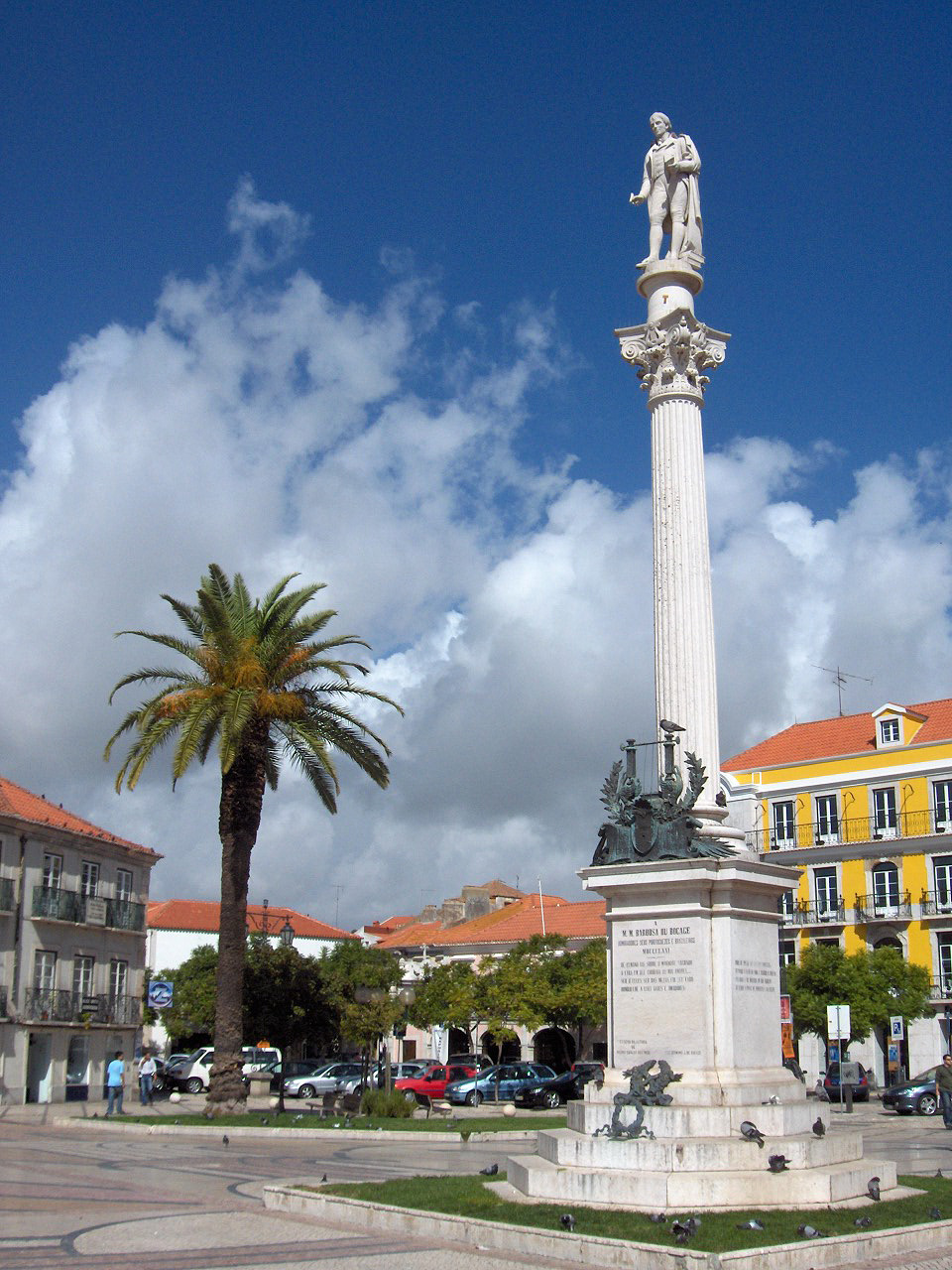 Statue of the poet Manuel do Bocage; Setúbal, Portugal